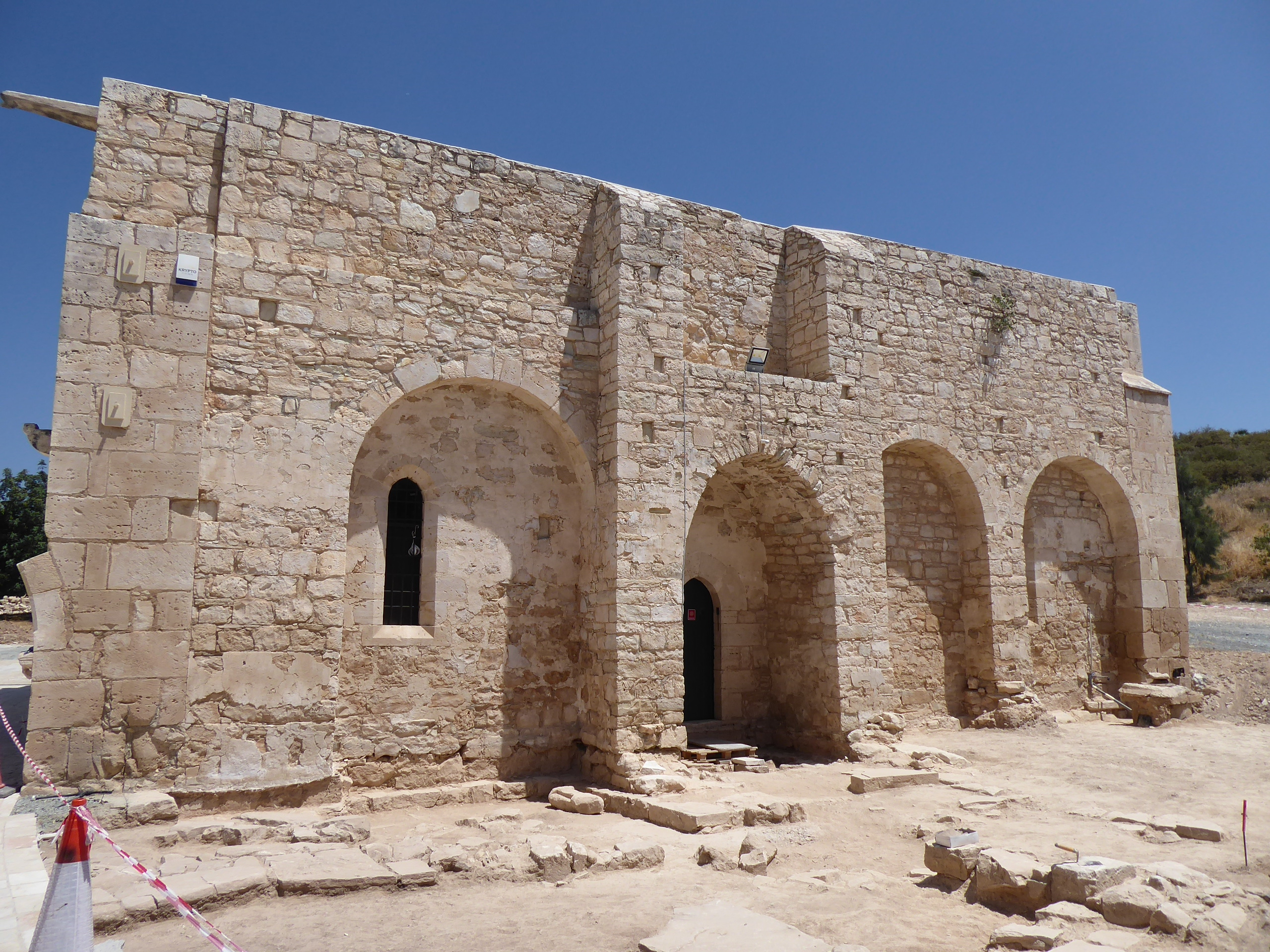 Panagia Karmiotissa